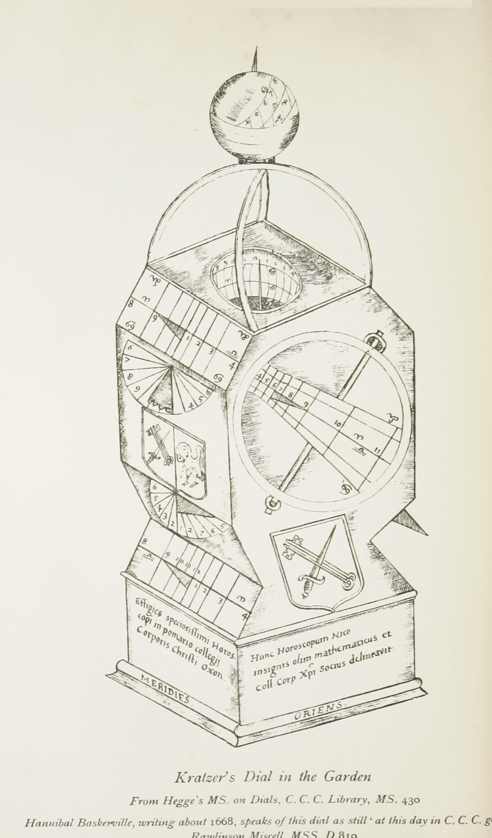 Dial designed by Nicholas Kratzer formerly in the garden of Corpus Christi College, Oxford. Illustration reproduced by Fowler from Hegge's MS on dials in the Corpus Christ College library, MS 430.